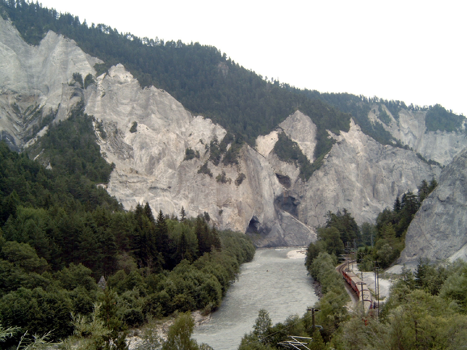 Rhine canyon or Ruinaulta, between Ilanz/Glion and Chur, Switzerland